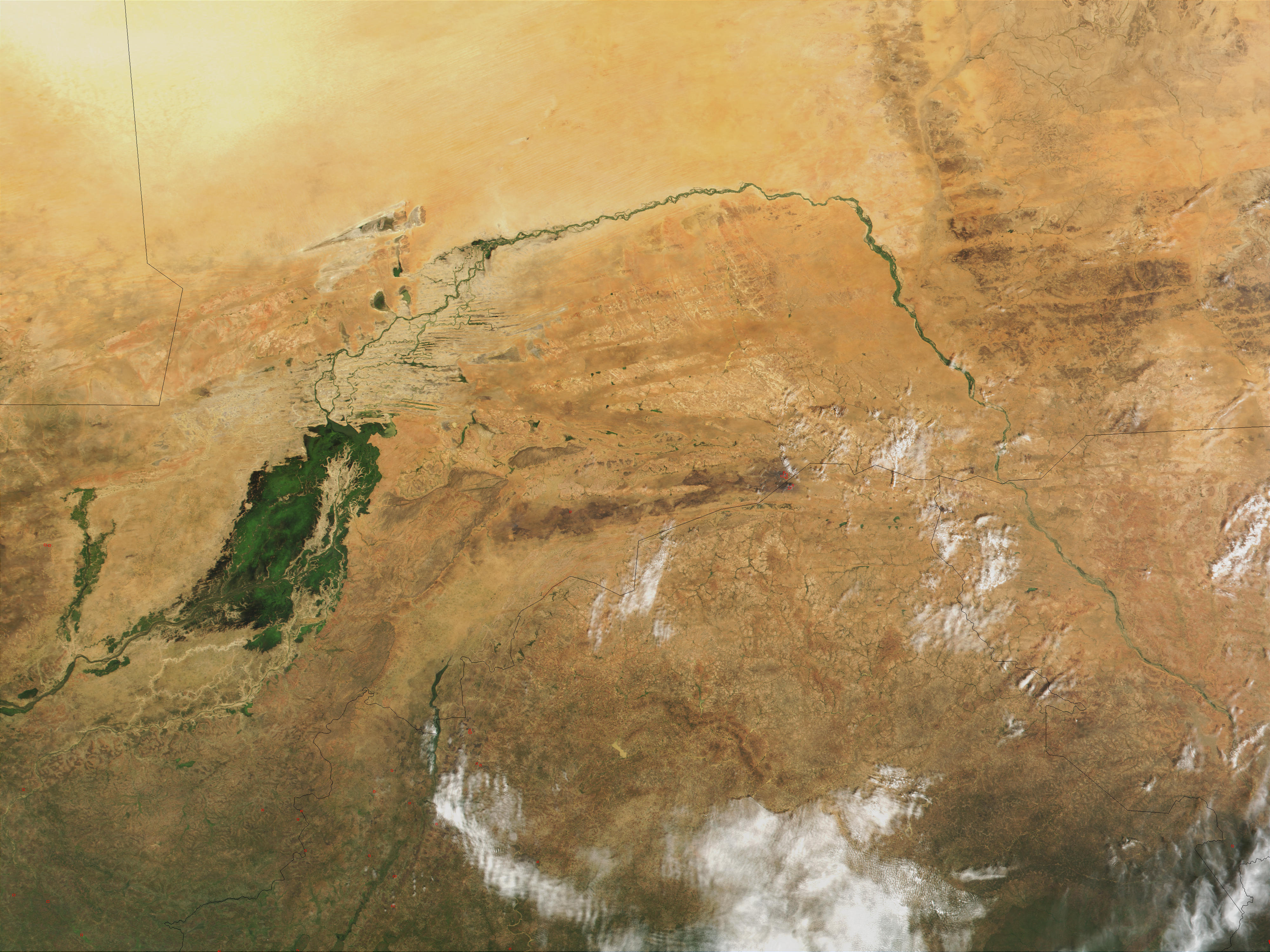 Niger River in Mali, 2001. Just south of the Sahara Desert in Africa, the Niger River creates a lush area of wetlands and lakes in an otherwise arid environment. In this true-color MODIS image from October 18, 2001, the Niger enters at left as a thin strip of green and flows northeast through Mali. The river then turns south and heads into the country of Niger. (Note, this is at the end of the rainy season, showing the Niger Inland Delta in dark green).